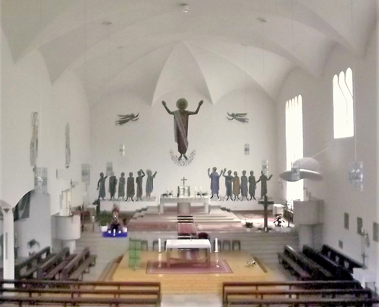 Interior of the roman catholic church in Dirmingen, Saarland, Germany